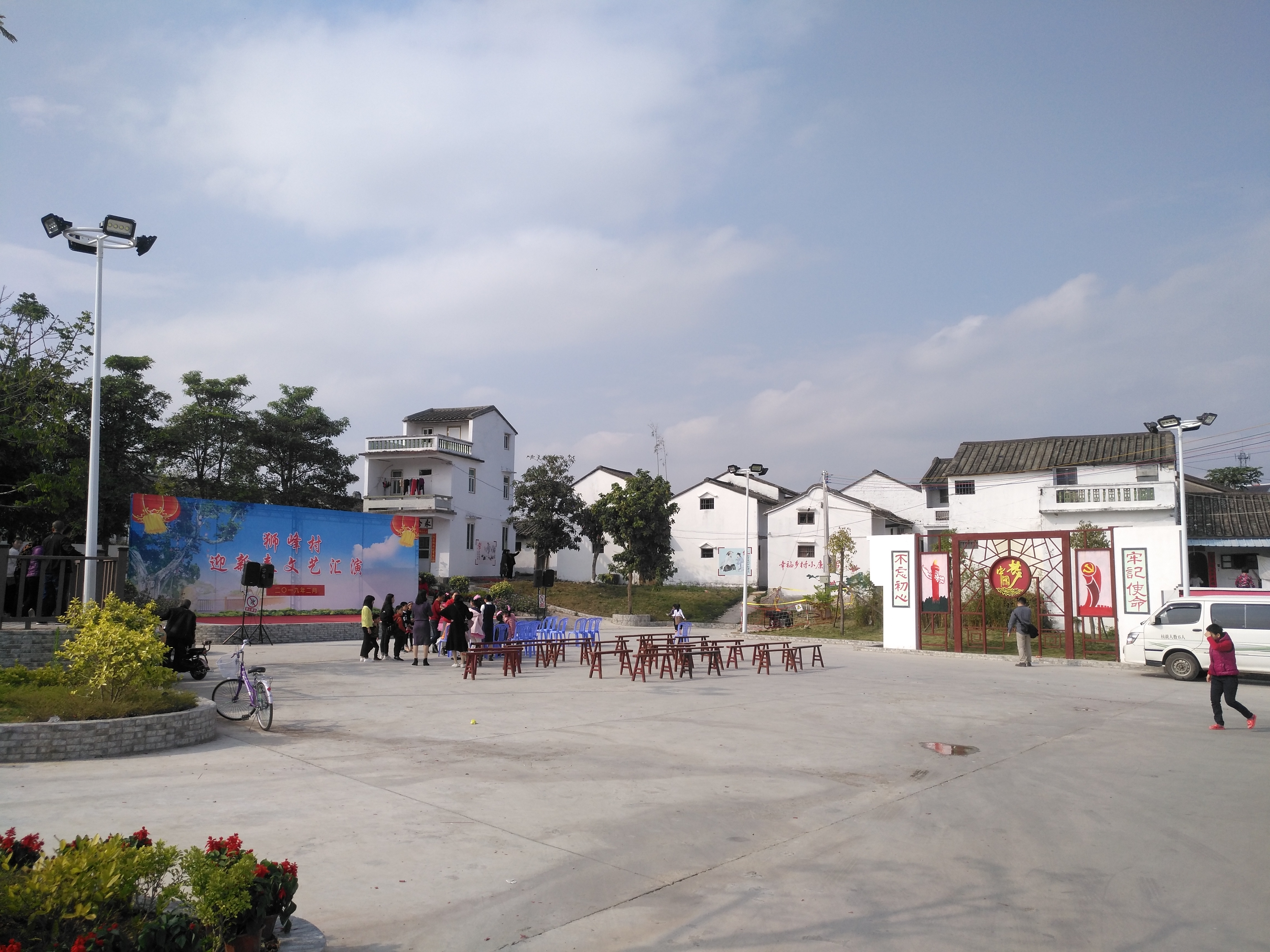 Shifeng Village Culture Square, Guihu Town, Chaoan District, Chaozhou City